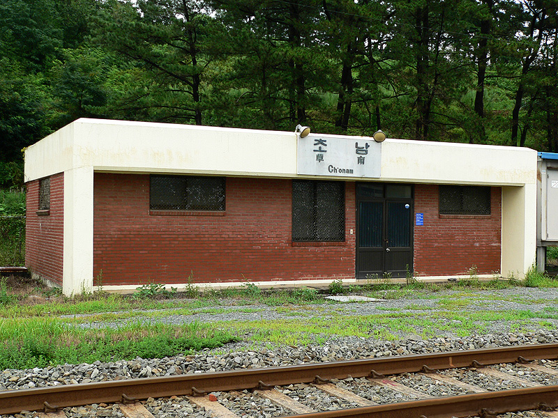 KORAIL Chonam Station